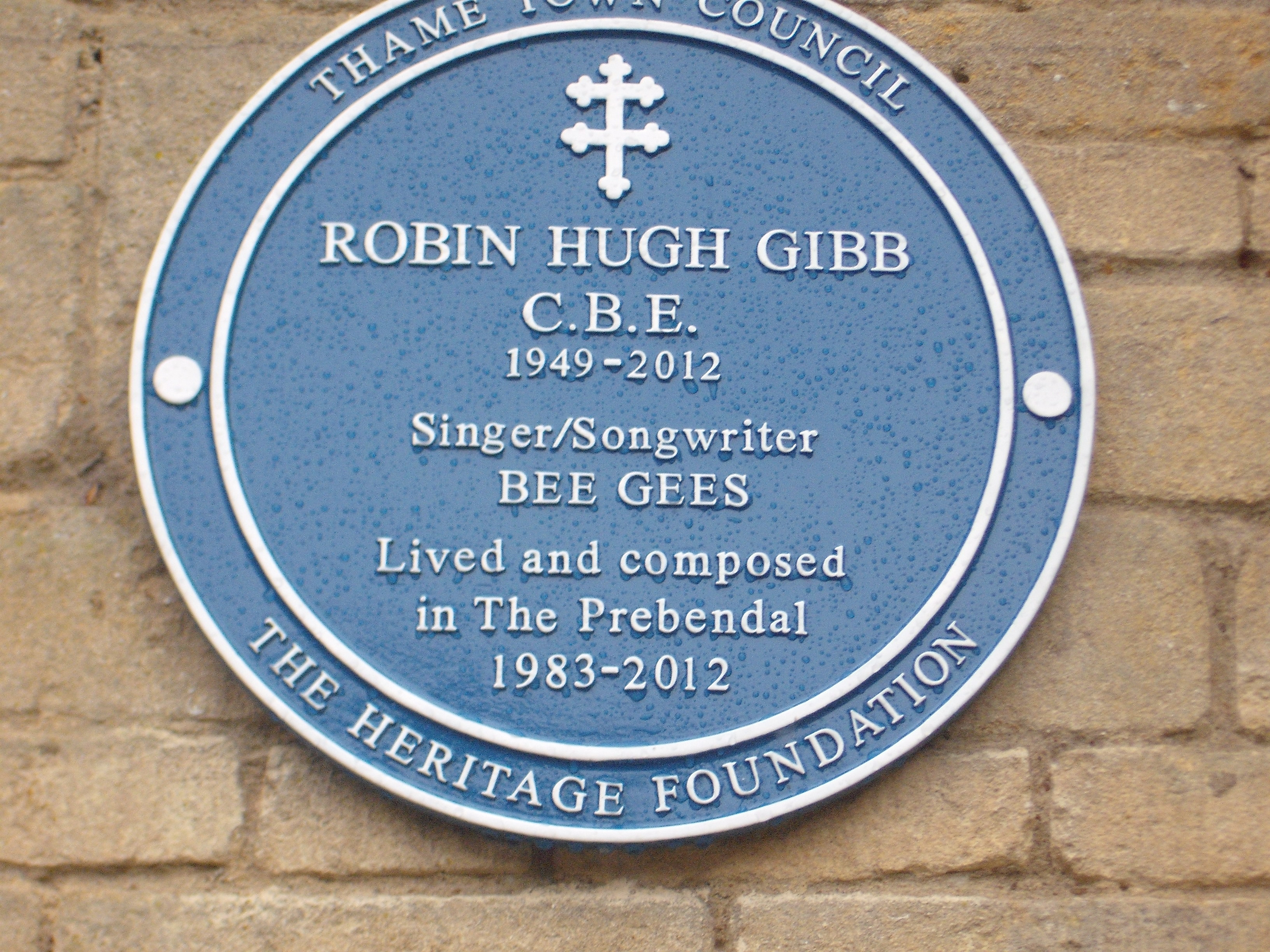 Commemorative plaque for Robin Gibb